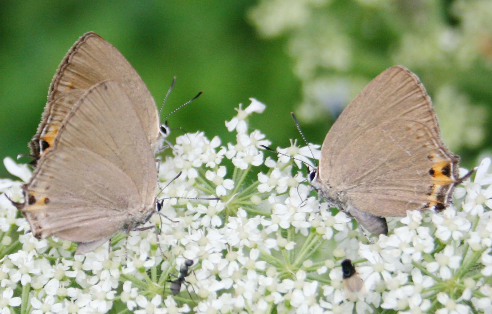 Strymonidia mera at Mount Ibuki